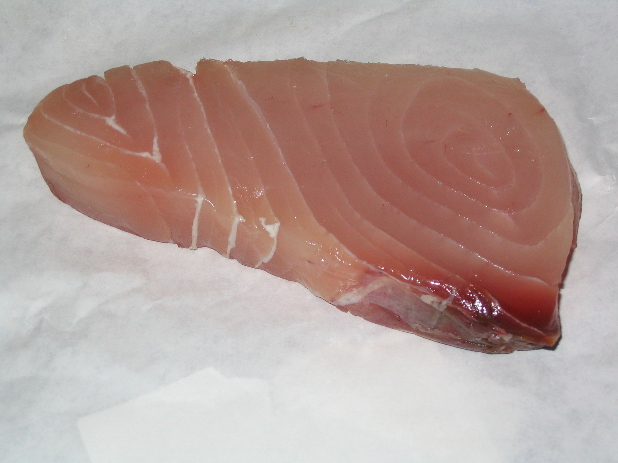 A picture of a 8 ounce serving of Makaira nigricans (Atlantic Blue Marlin) meat that I took with my digital camera.